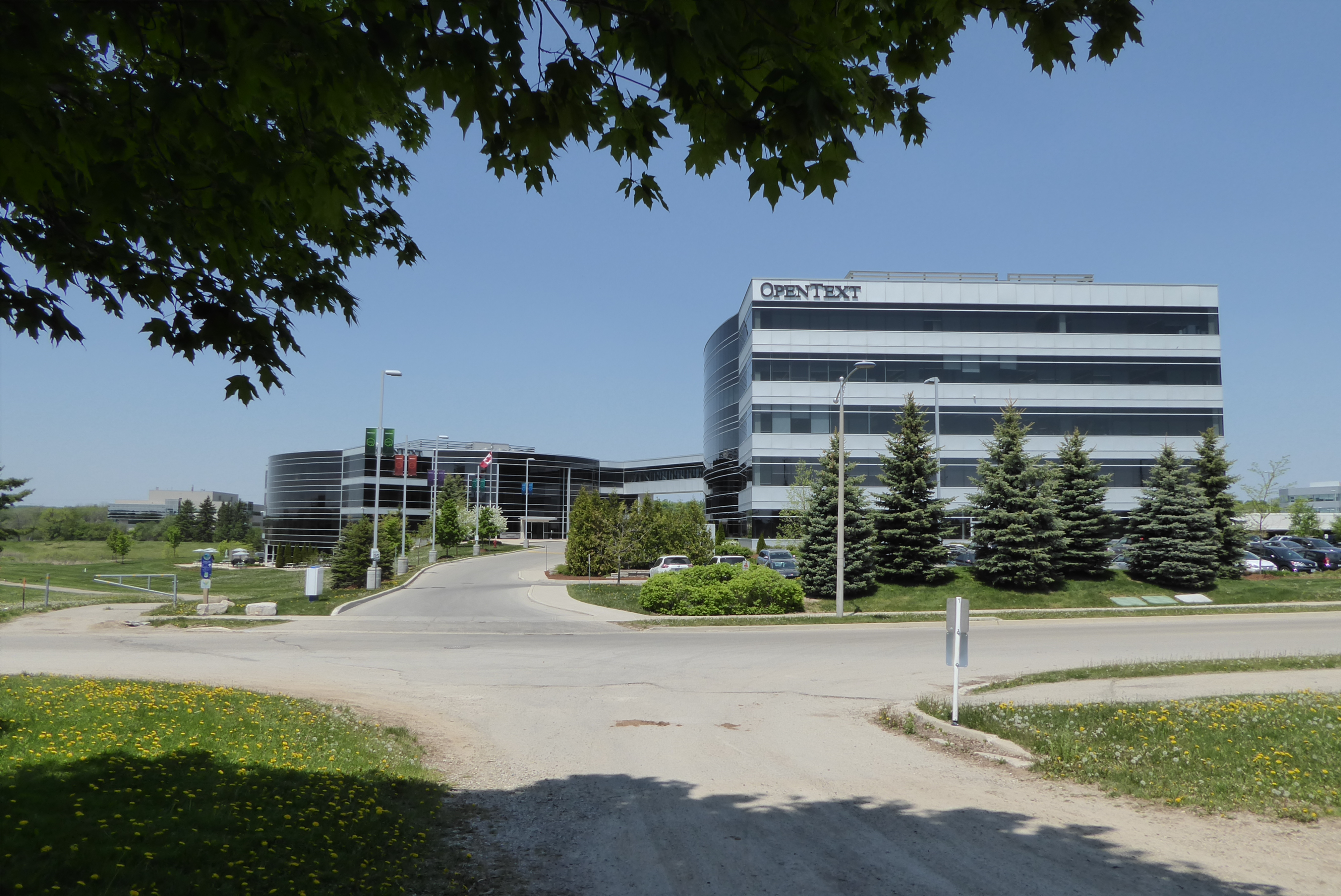 Opentext's head quarters in Waterloo, Ontario, Canada